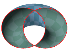 Single frame of Image:Villarceau circles.gif for thumbnail purposes.